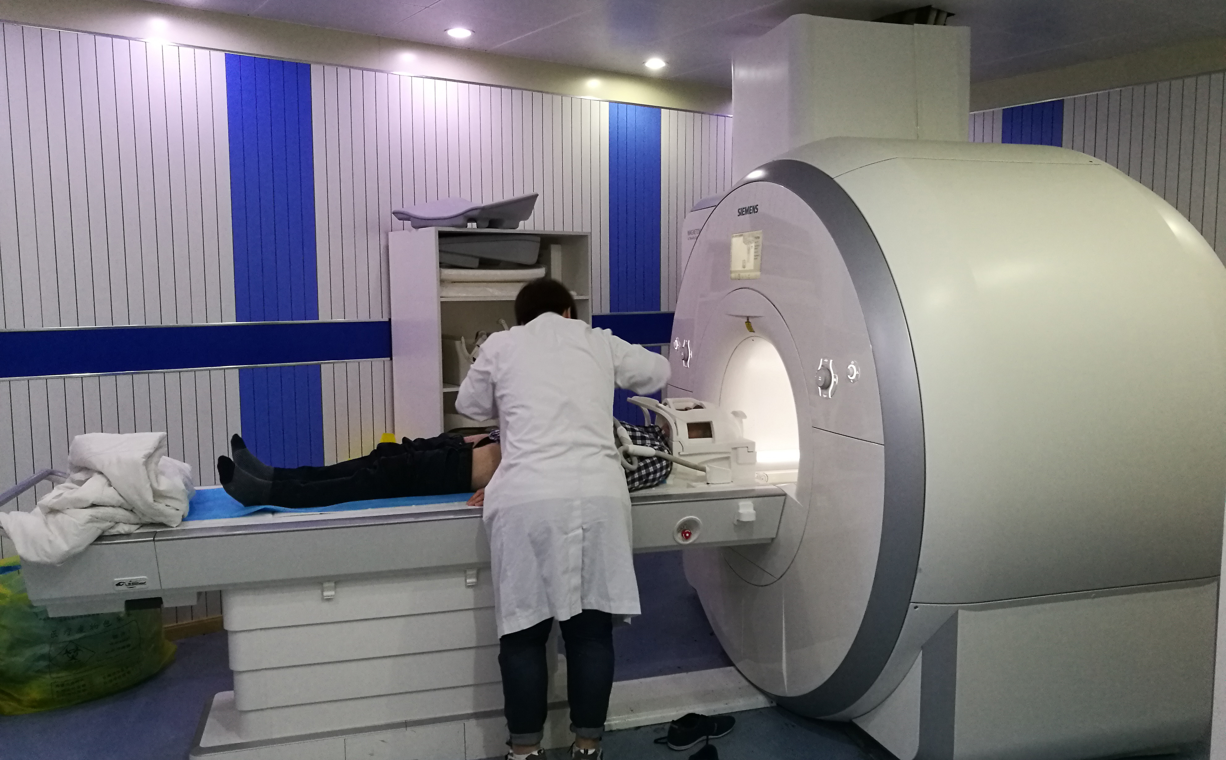 Patient being positioned for MR study of the head and abdomen. Scanner is a Siemens MAGNETOM Aera (1.5 Telsa superconducting magnet).